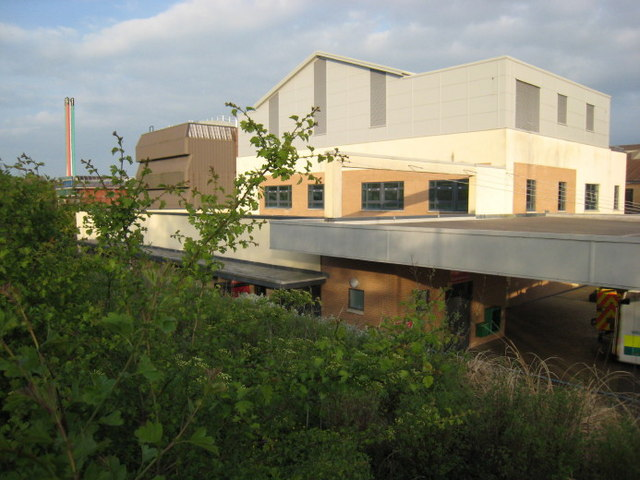 Ysbyty Treforys. Morriston Hospital. Mae'r simdde amryliw ar y chwith yn un o nodweddion pensaerniol y fro. The multi coloured chimney on the left is a prominent local landmark.